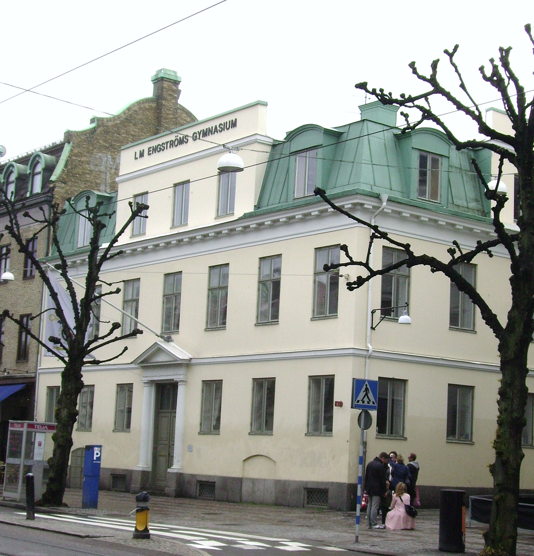 Picture of LM Engströms gymnasium in Göteborg (school)